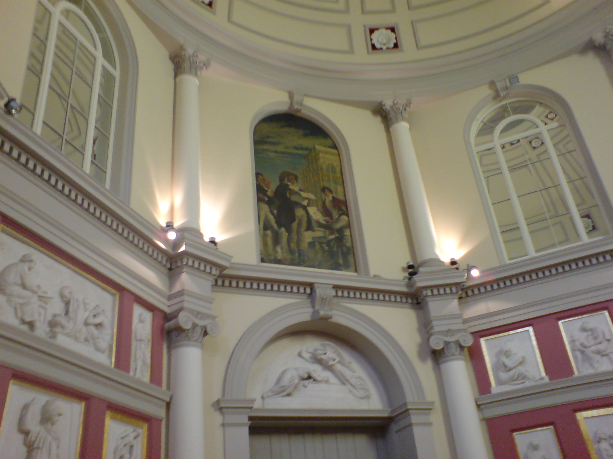 University College London and the Flaxman Gallery by John Flaxman.